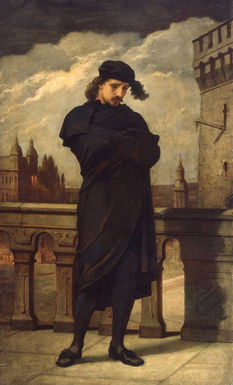 Portrait of Hamlet, oil on canvas, by Boston artist William Morris Hunt, executed about 1864. The painting descended in the Hunt family until being donated to the Museum of Fine Arts, Boston. Courtesy of the Museum of Fine Arts, Boston, Massachusetts